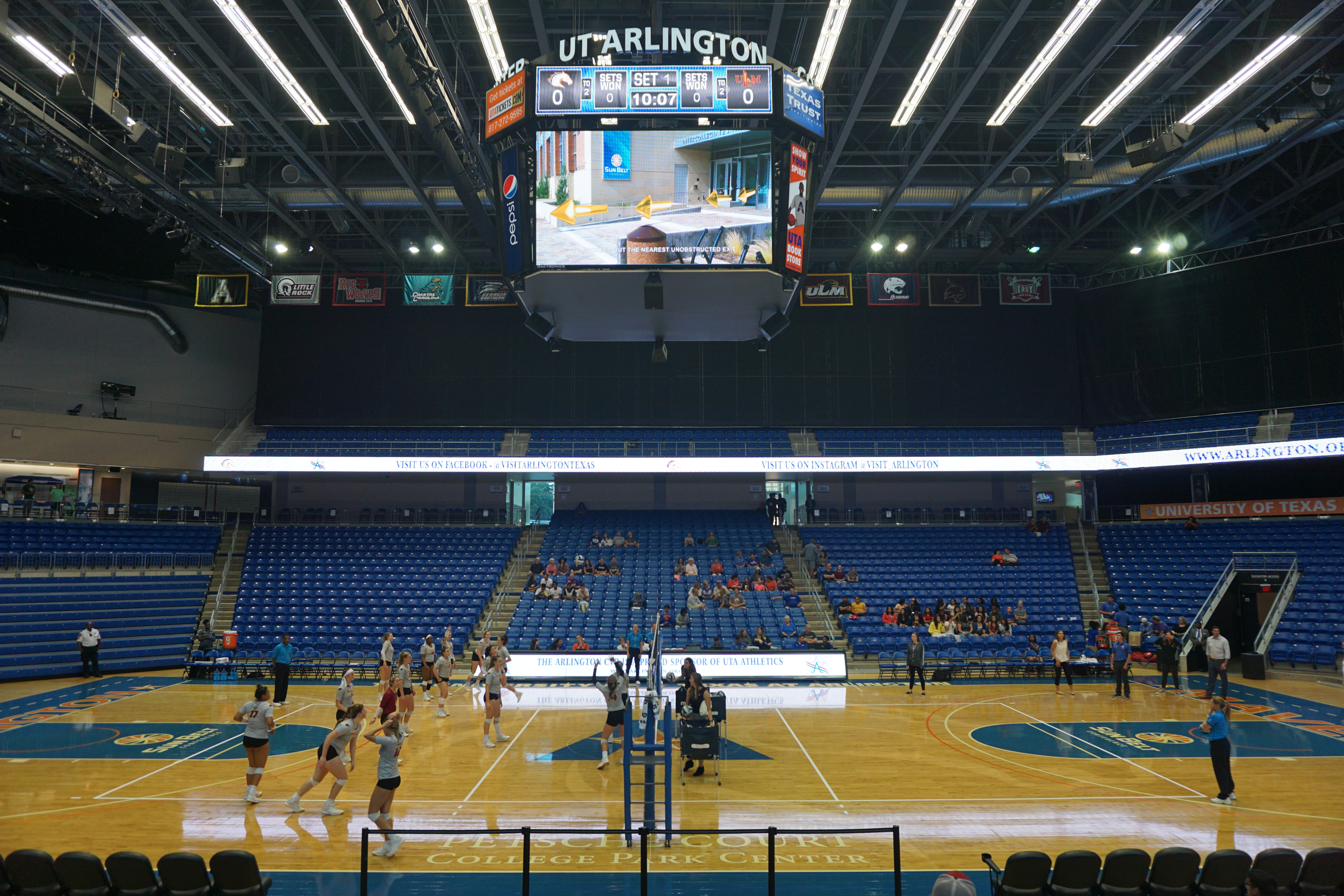 Louisiana–Monroe warming up before the Louisiana–Monroe Warhawks vs. UT Arlington Mavericks women's volleyball match at College Park Center in Arlington, Texas (United States). UT Arlington won 3–1 (27–29, 25–20, 25–15, 25–14).